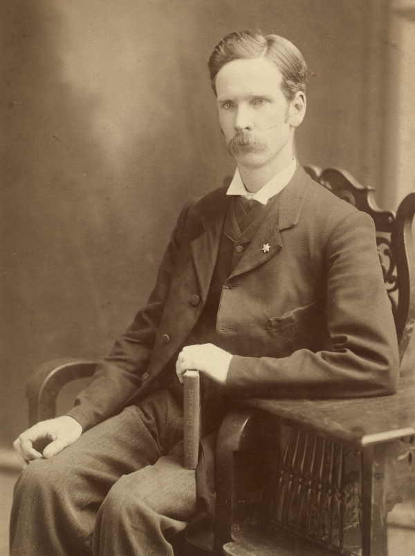 Bernard O'Dowd photograph : gelatin silver ; on card 20 x 15 cm. Accession No: H24419